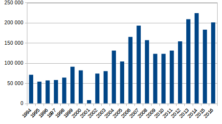 Afghanistan opium poppy cultivation, 1994-2016 (hectares). Information from : Afghanistan Opium Survey 2010.